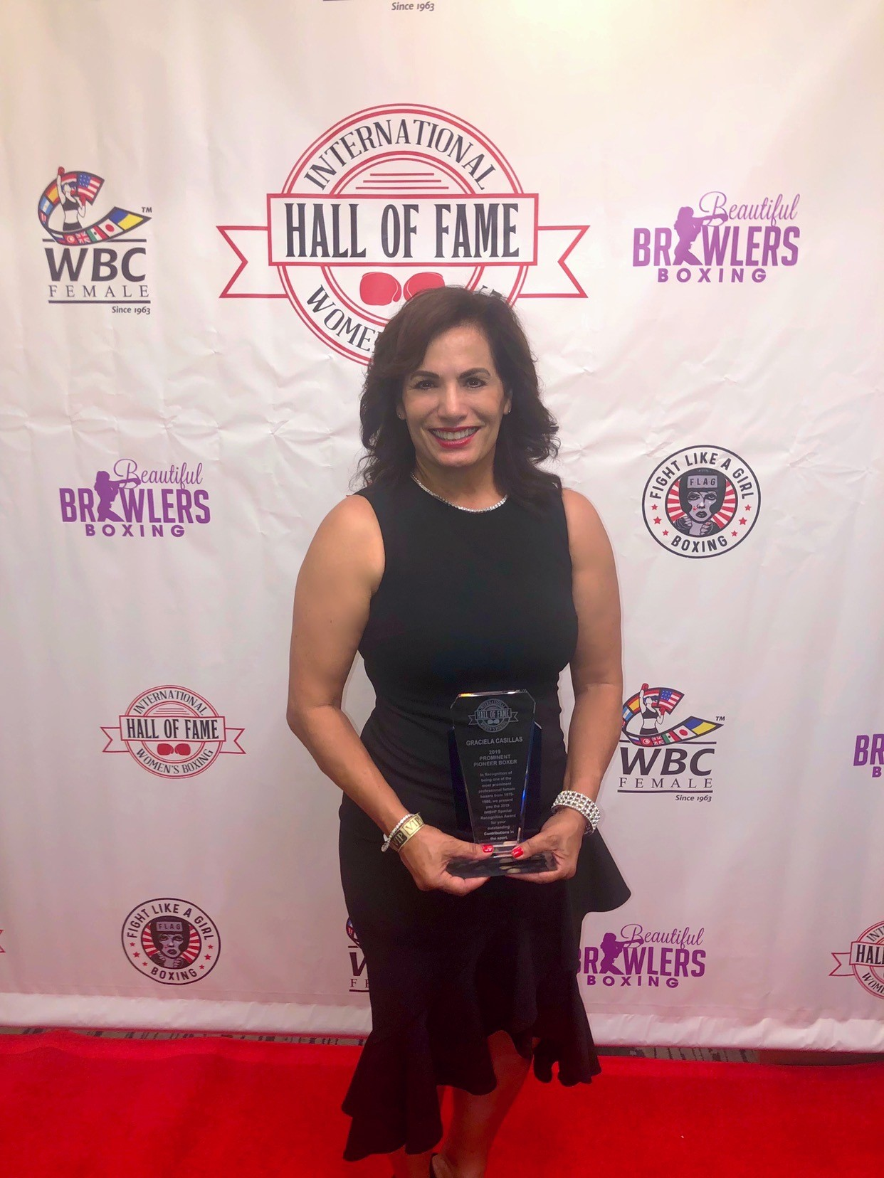 Photo of graciela casillas at women boxing international hall of fame accepting prominent boxer award